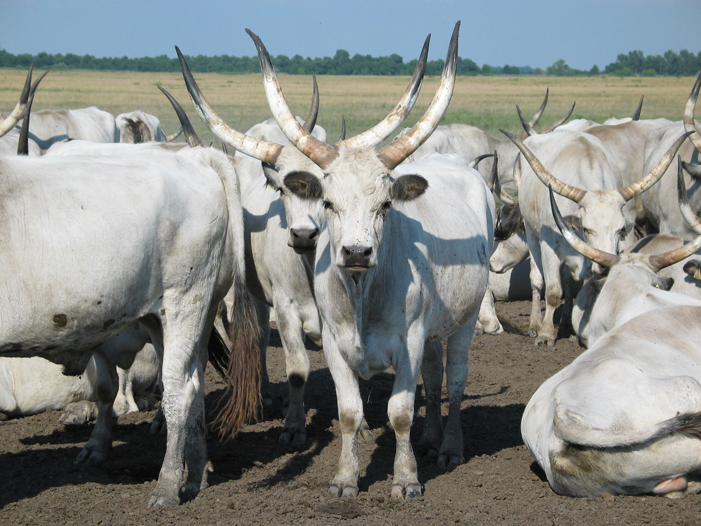 Hungarian Grey cows in Hortobágy National Park, Hungary.